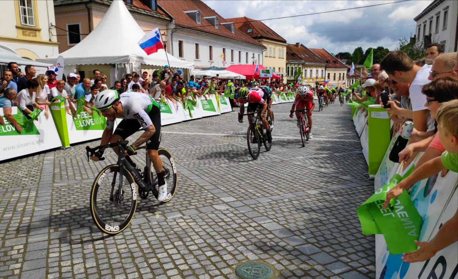 Giacomo Nizzolo winning final sprint (2019 Tour of Slovenia, Stage 5), 2nd is Luka Mezgec